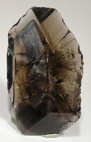 Axinite Locality: Dodo Mine, Tyumenskaya Oblast', Polar Urals, Western-Siberian Region, Russia (Locality at ) Size: 3.3 x 1.9 x .4 cm. A very fine, doubly-terminated single crystal of Axinite. The gemminess and luster are both excellent, and even though there is some very minute chatter along the edges, it is still a very fine example of the species. From finds of the 1980s. Ex. Charlie Key stock.